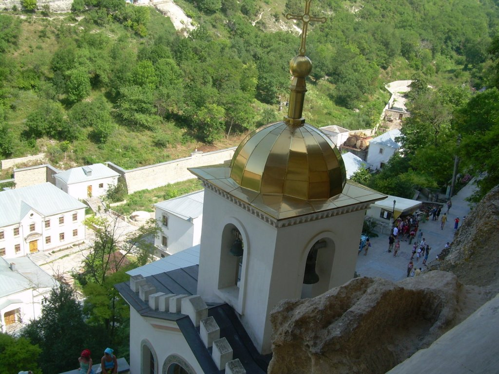 Uspensky Cave Monastery, Crimea, Ukraine